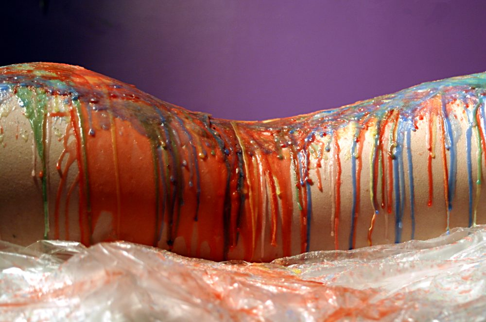 Lady Byron immediately after a wax play scene.